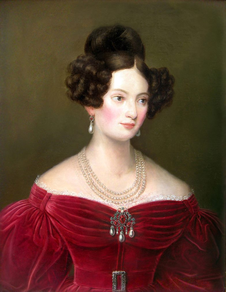 Ludovica Princess of Bavaria, Duchess in Bavaria